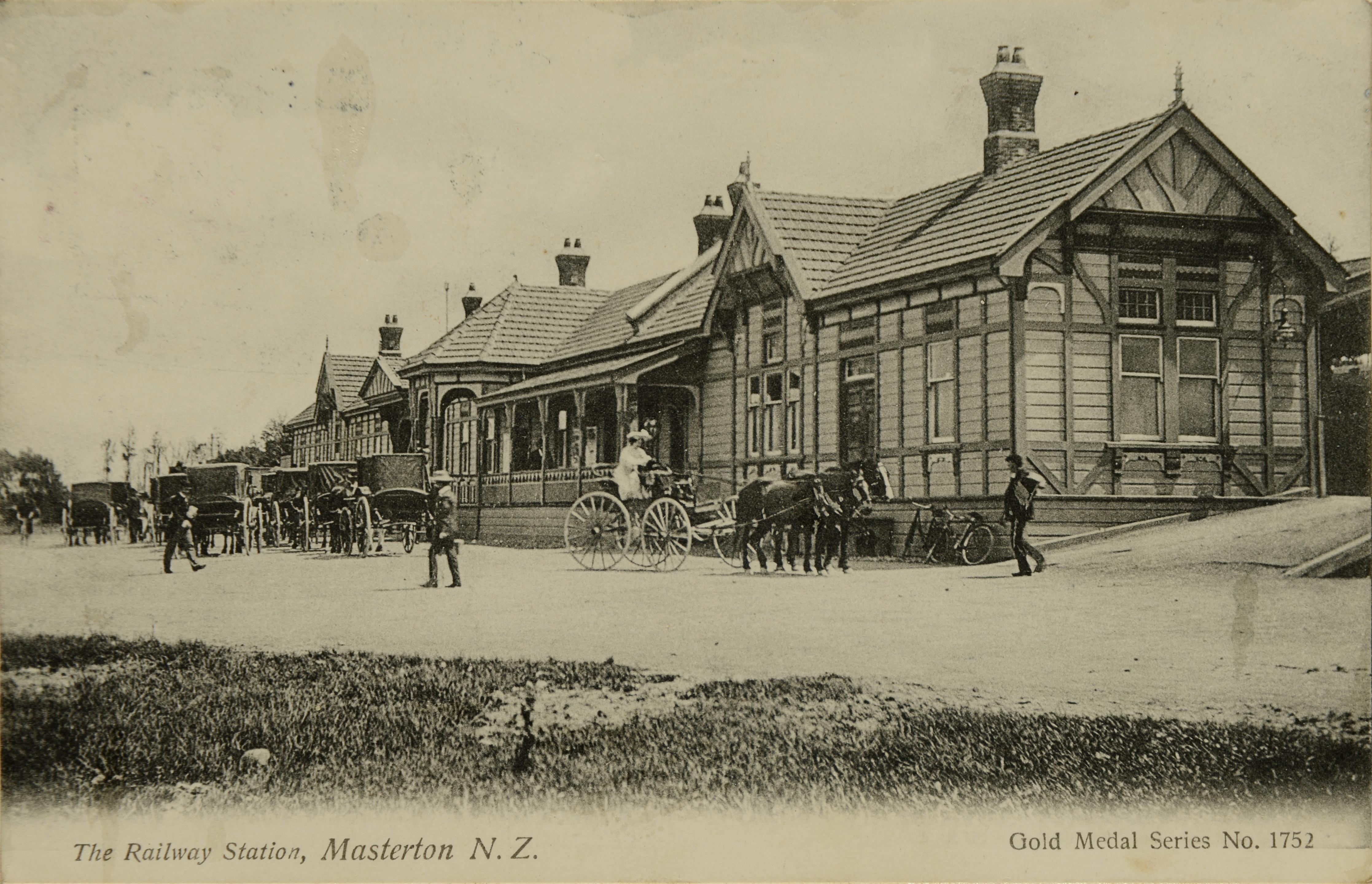 Archives Reference: ABIN W3337 207 R19600150 From a collection of 'Should Auld Acquaintance Be Forgot' scrapbook of cards, photographs, newspaper clippings and card greetings for Christmas/New Year from various railway stations in New Zealand.